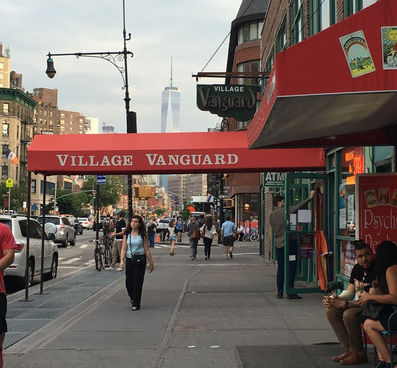 Picture of Village Vanguard on 7th Ave in New York City, looking southbound on the west side of street.